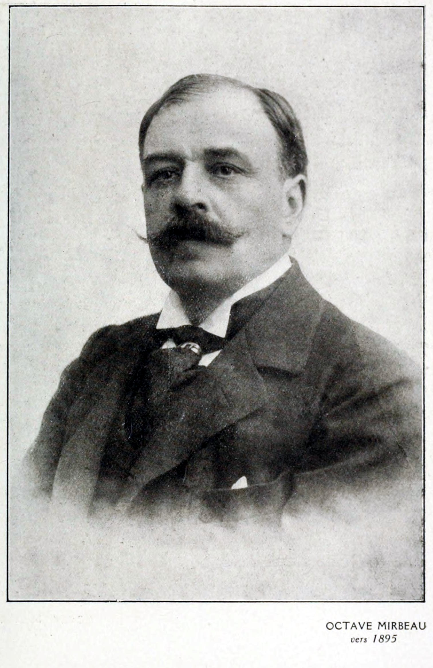 Octave Mirbeau c. 1895.